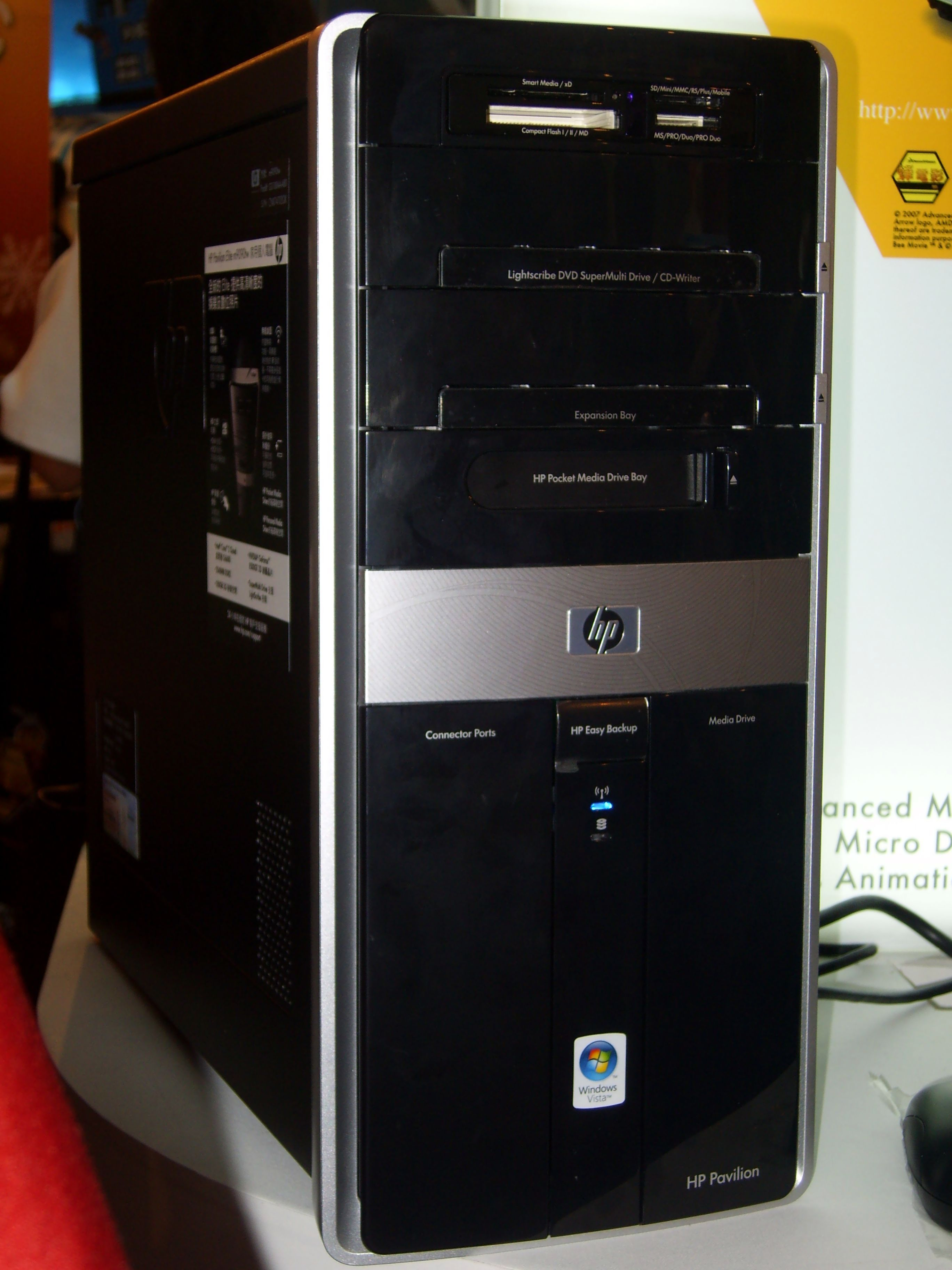 2007 Taipei IT Month: HP Pavilion a6036tw with AMD Processor inside.